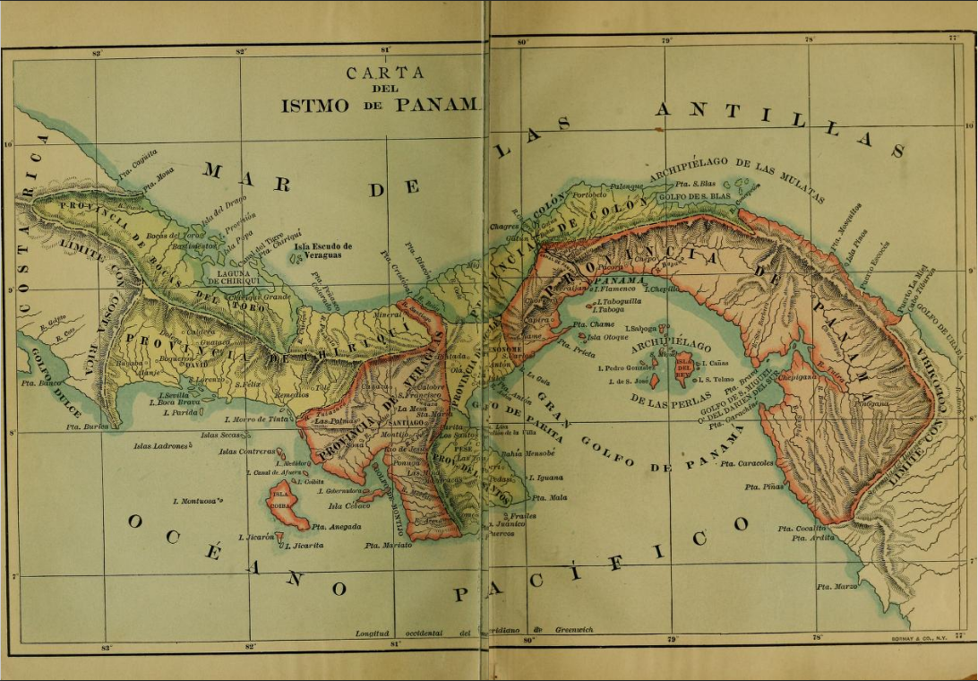 Map of the isthmus of Panama